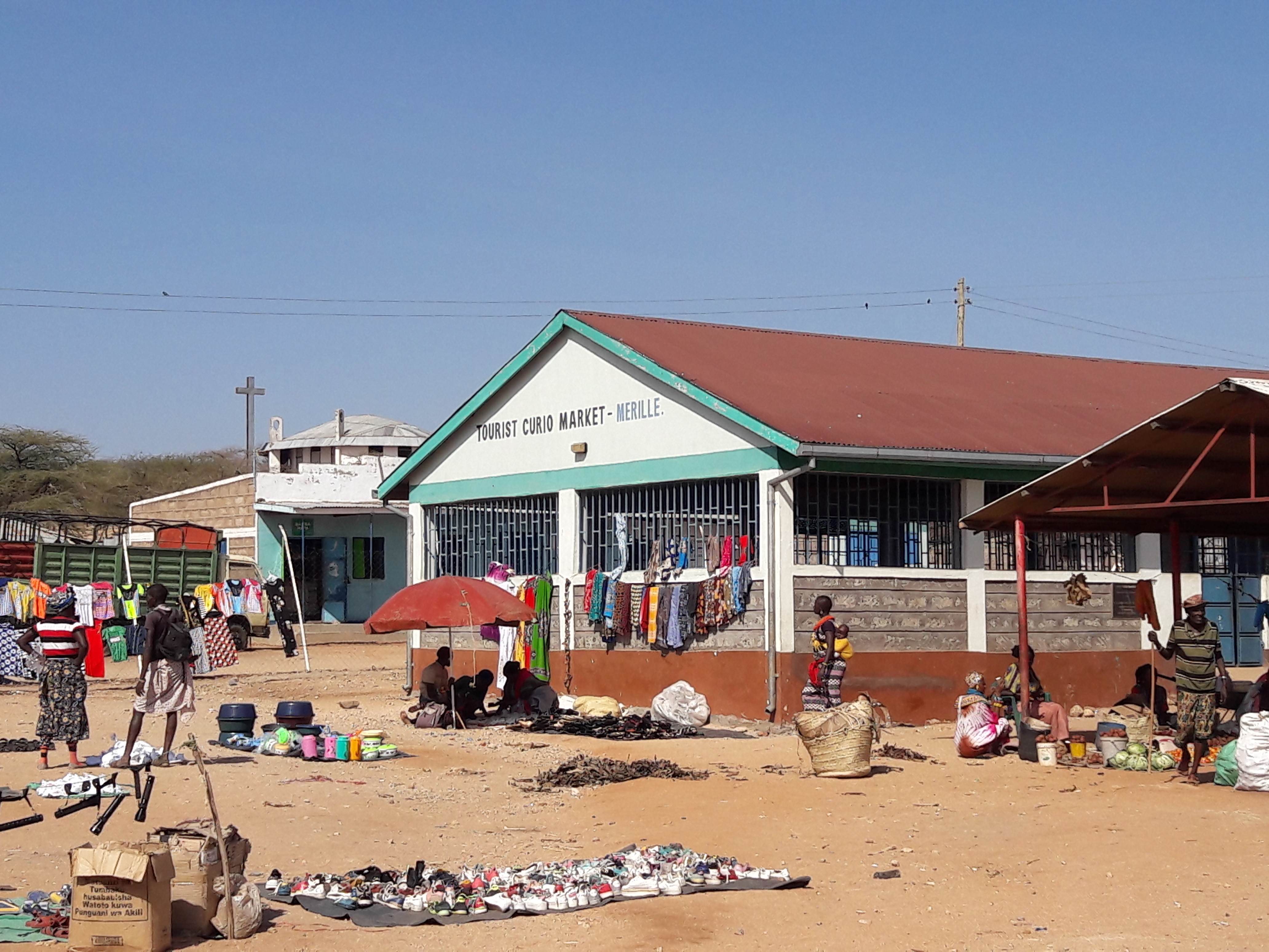 Tourist Curio Market - Merille, along the main Isiolo-Moyale highway